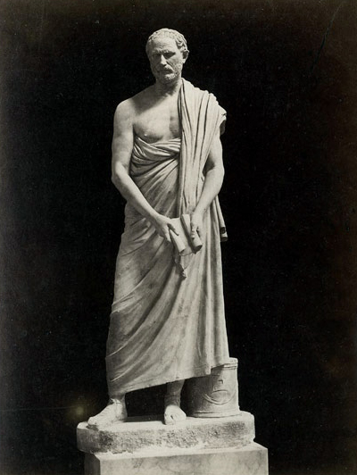 Giorgio Sommer (1834-1914) - "Demosthenes - Vatican City", Italy. Catalogue # 5112. cropped version